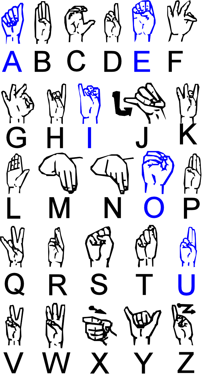 A picture of letters a-z in Irish Sign Language